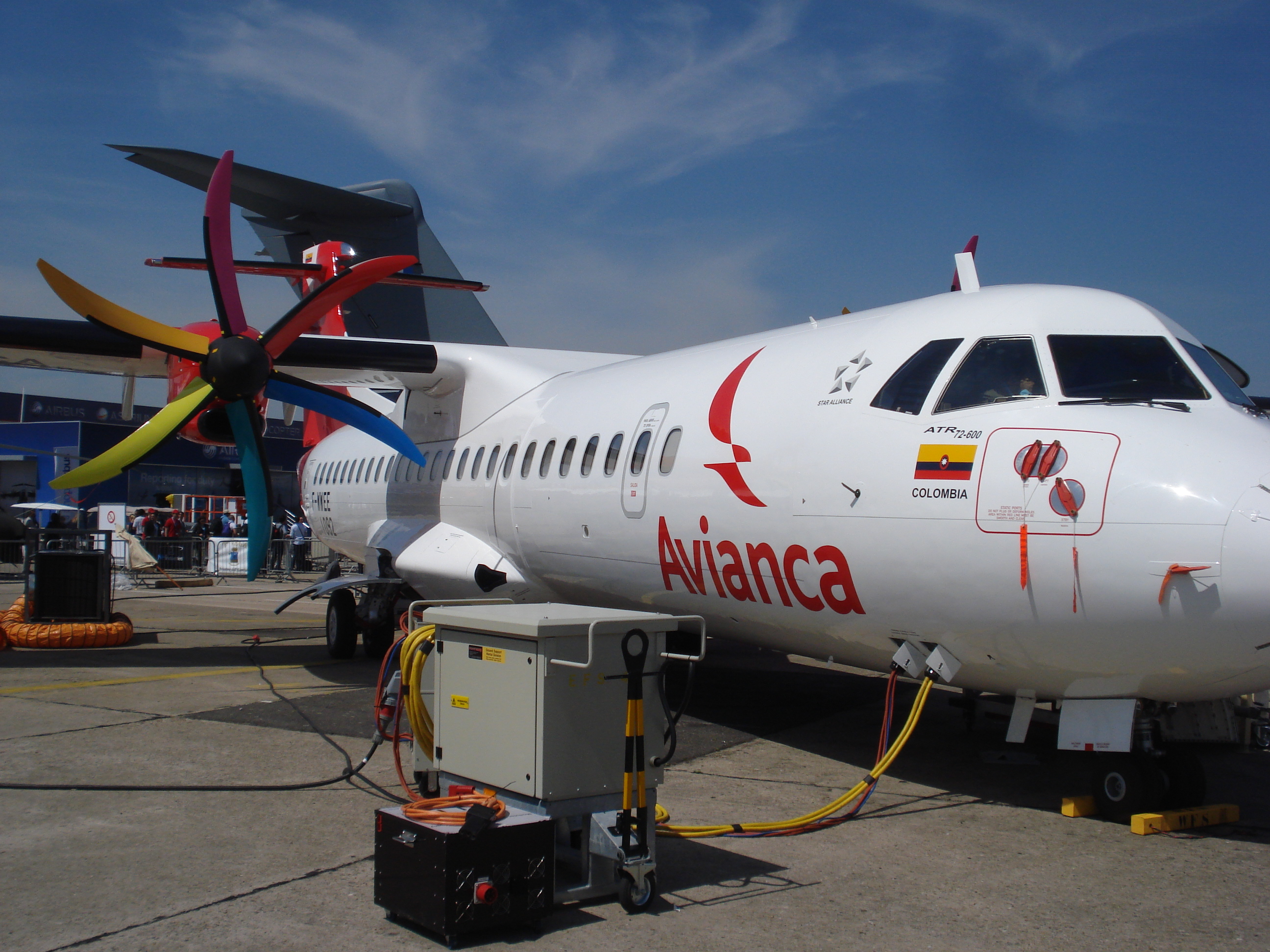 A brand new ATR 72-600 to be delivered to Avianca on Paris air show in June 2013.